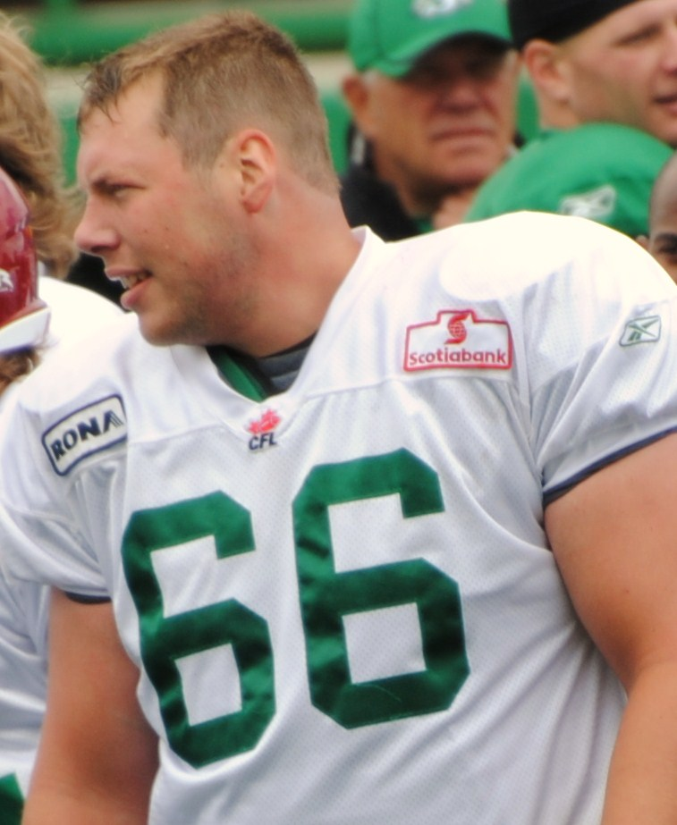 Chris Best during a Saskatchewan Roughriders practice.